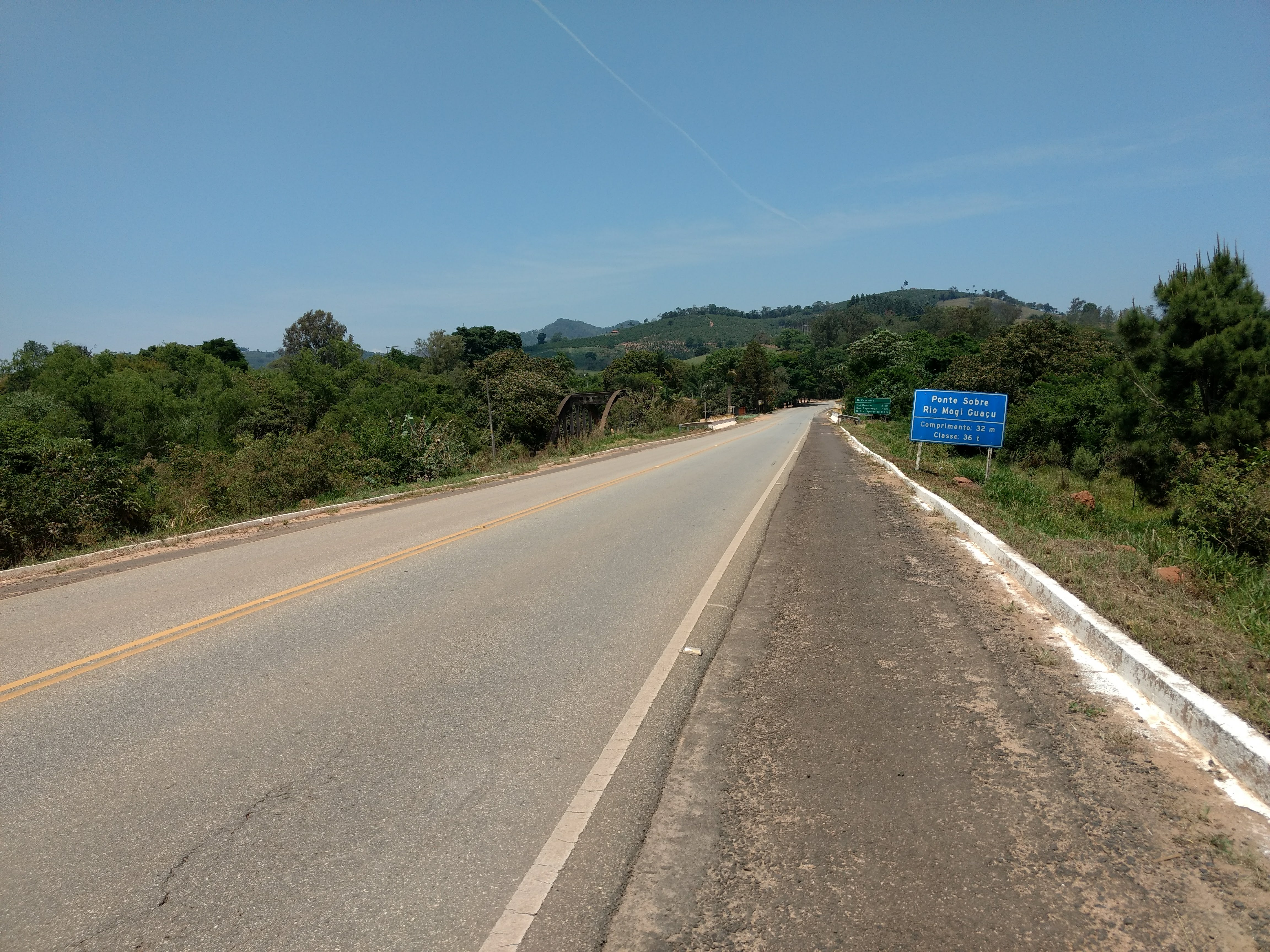 Road MG-459 in Ouro Fino, near the bridge over Mojiguaçu river